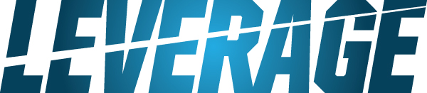 Logo of the American television drama serie Leverage